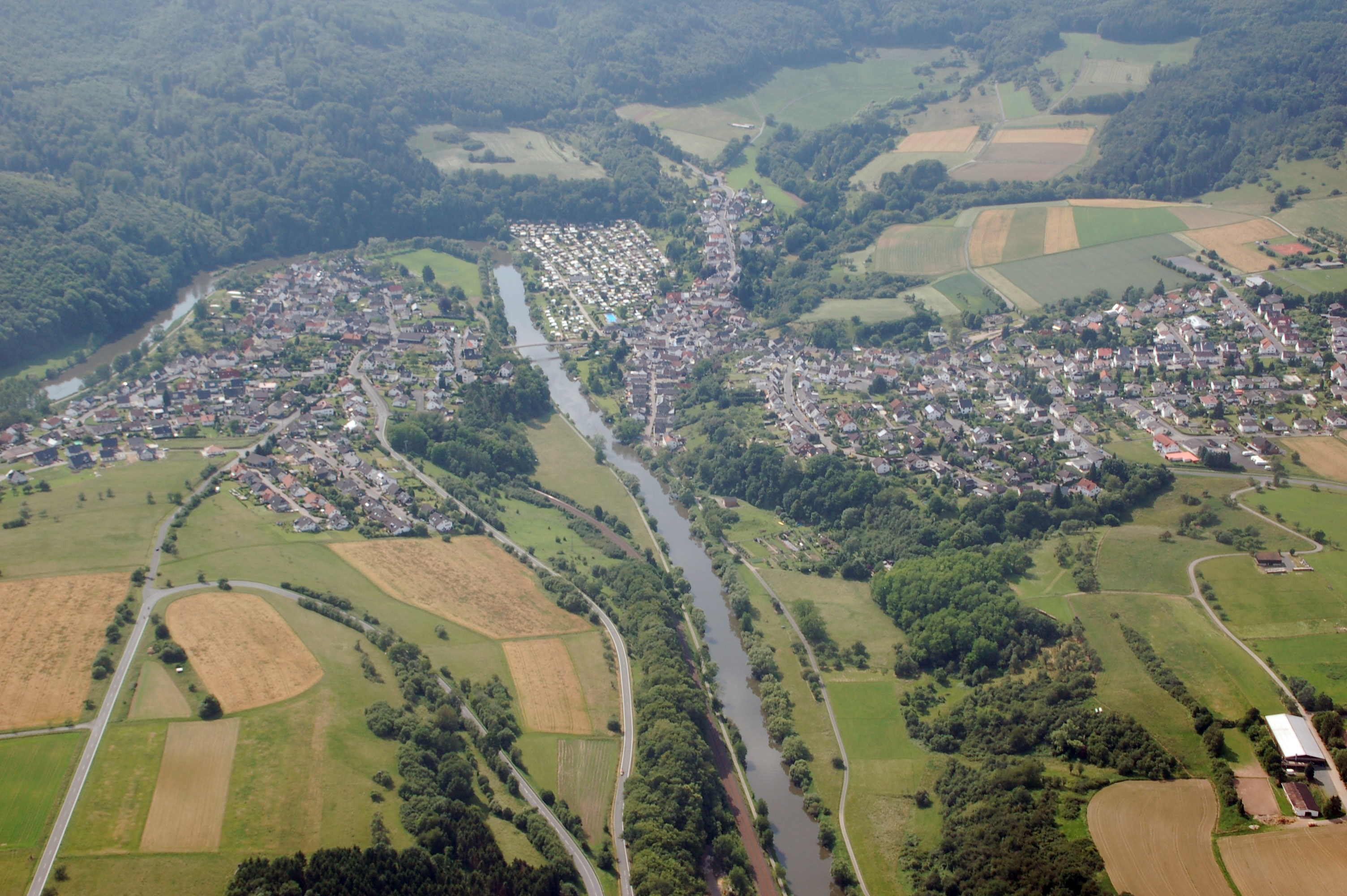 Aerial photograph of Kirschhofen & Odersbach, Hesse, Germany